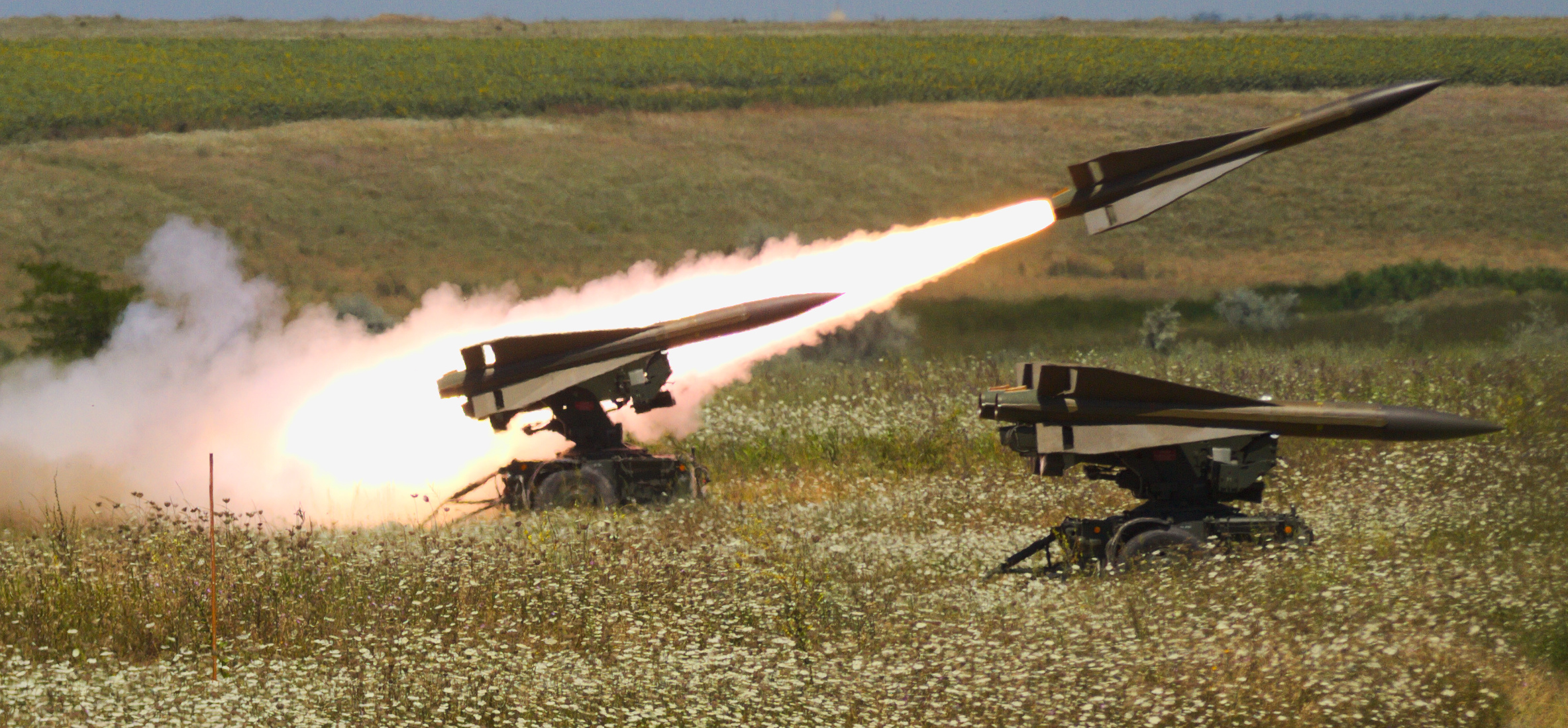 A Romanian MIM-23 Hawk missile is fired from Capu Midia Training Area, Romania, July 19, 2017. The exercise was part of Tobruq Legacy, an air defense exercise where the U.S. and its NATO Allies and partners came together to enhance air defense in Eastern Europe by training together and sharing techniques and strategies. (U.S. Army Photo by Pfc. Nicholas Vidro)